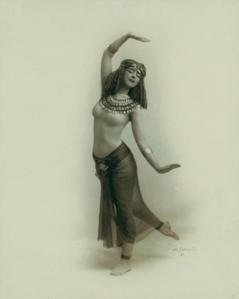 Dancer Ruth St Denis in Ancient Egyptian style costume, photographed by Otto Sarony, c. 1900.